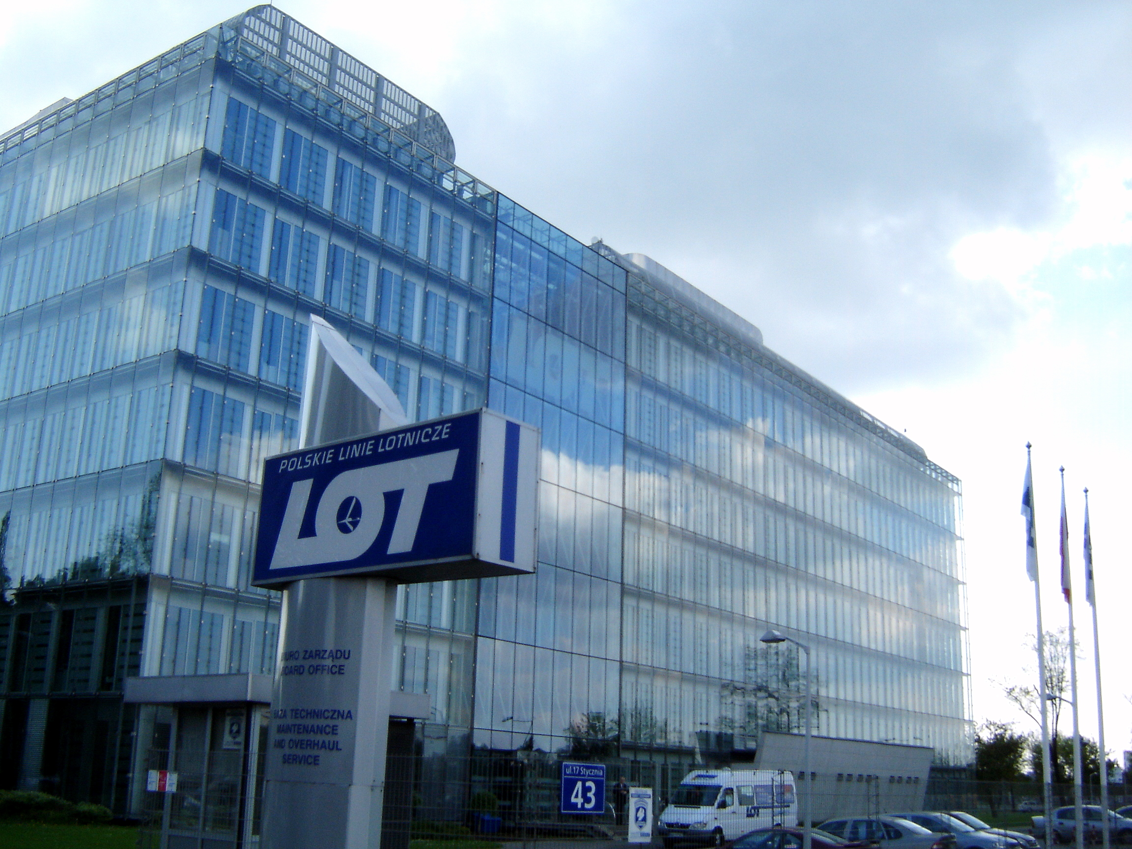 Head office of the LOT Polish Airlines; 43, 17 Stycznia Street, Warsaw